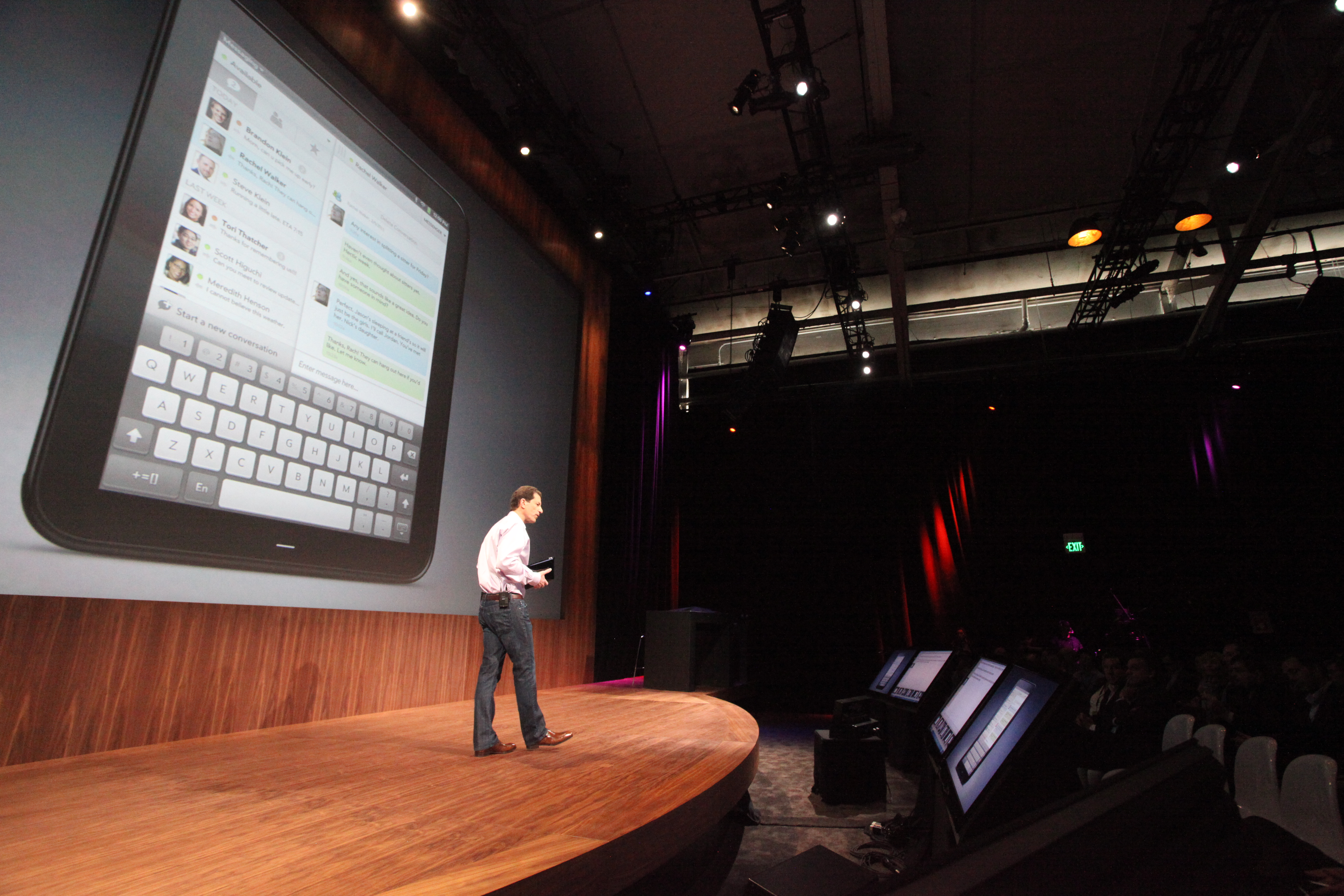 Jon Rubenstein introduces new HP TouchPad at an HP event on 9 Feb 2011